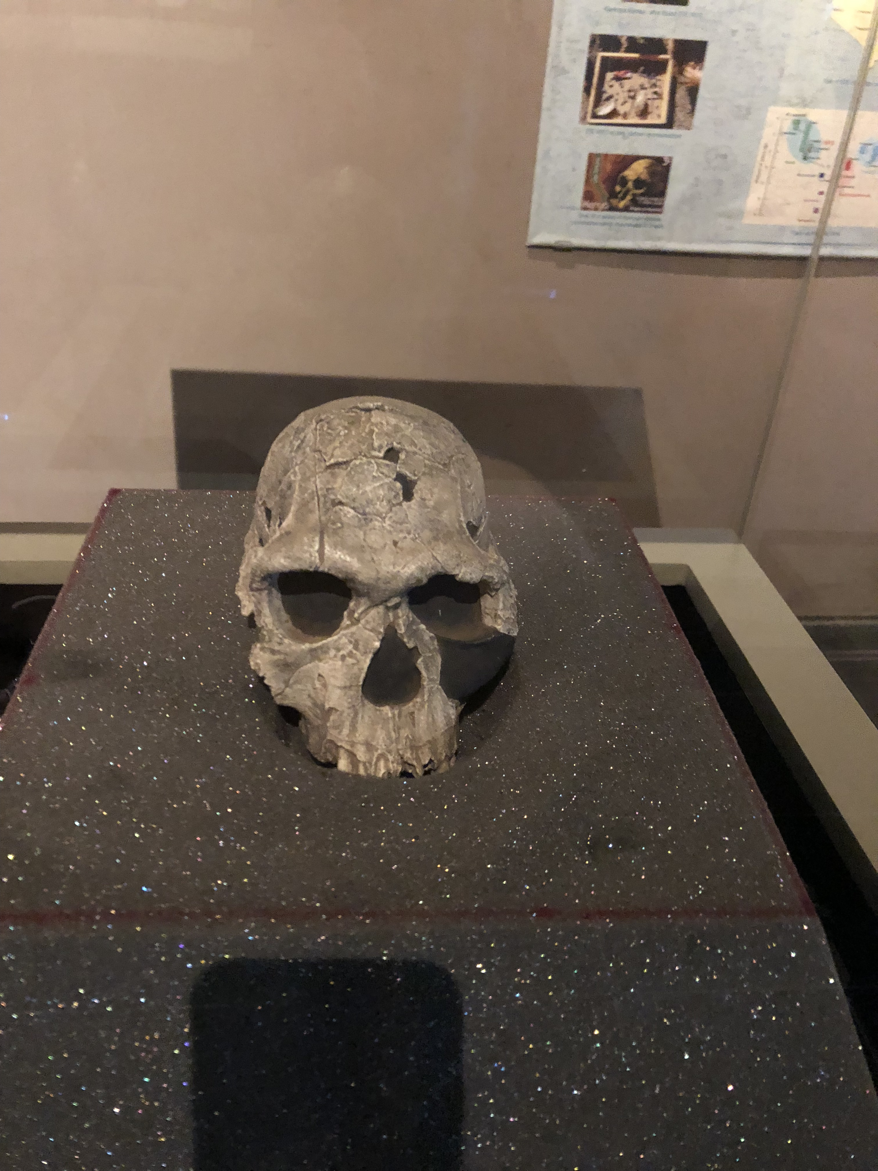 actual skull from Kenya museum